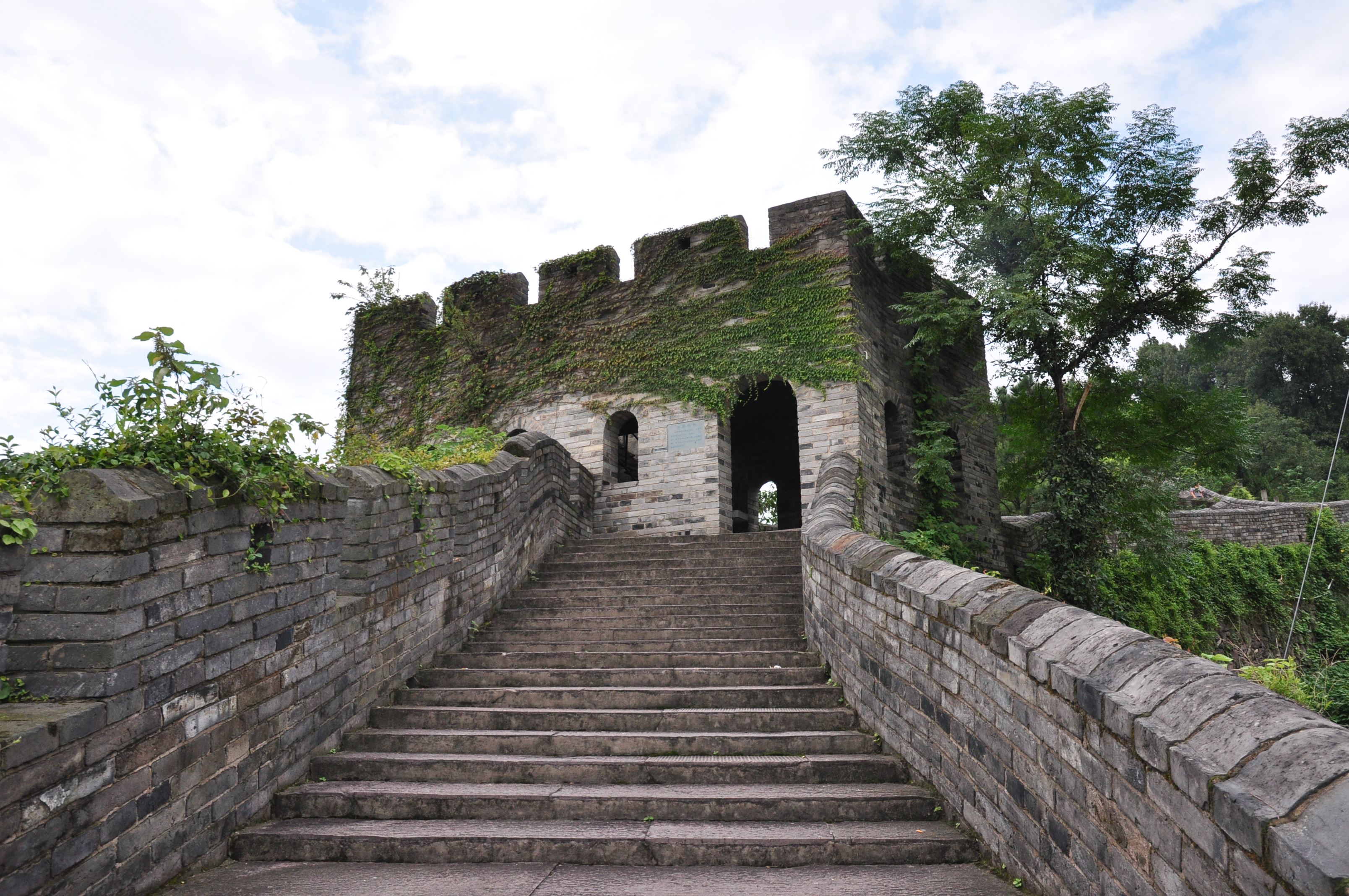 A double-layer watch tower on the ancient city wall of Linhai, Zhejiang, China. Designed and built by Qi Jiguang in 1559.